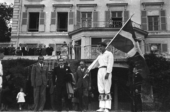 Jose Antonio Agirre Lekube, President of Basque Goverment's, and Lluís Companys i Jover, President of Catalonian Goverment in Barcelona. 16 October 1938.